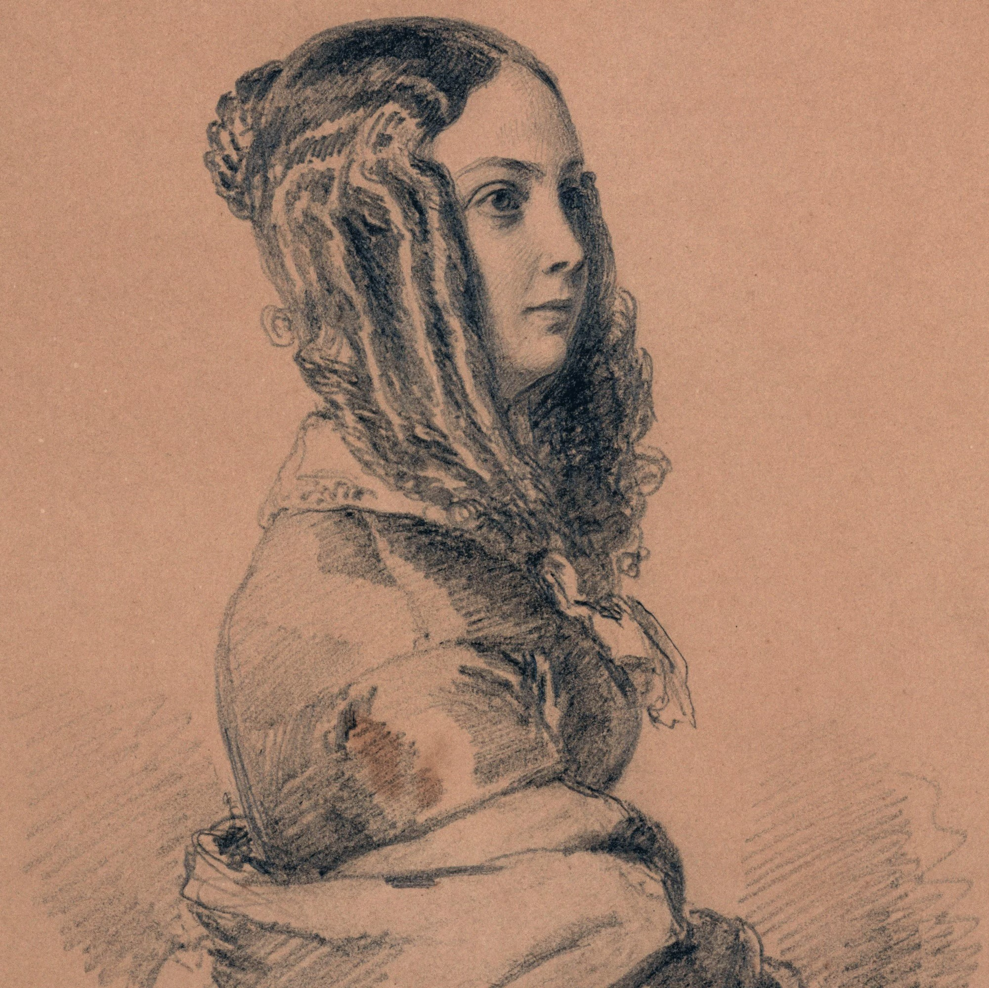 Portrait of French poetess Louise Colet (1810-1876)